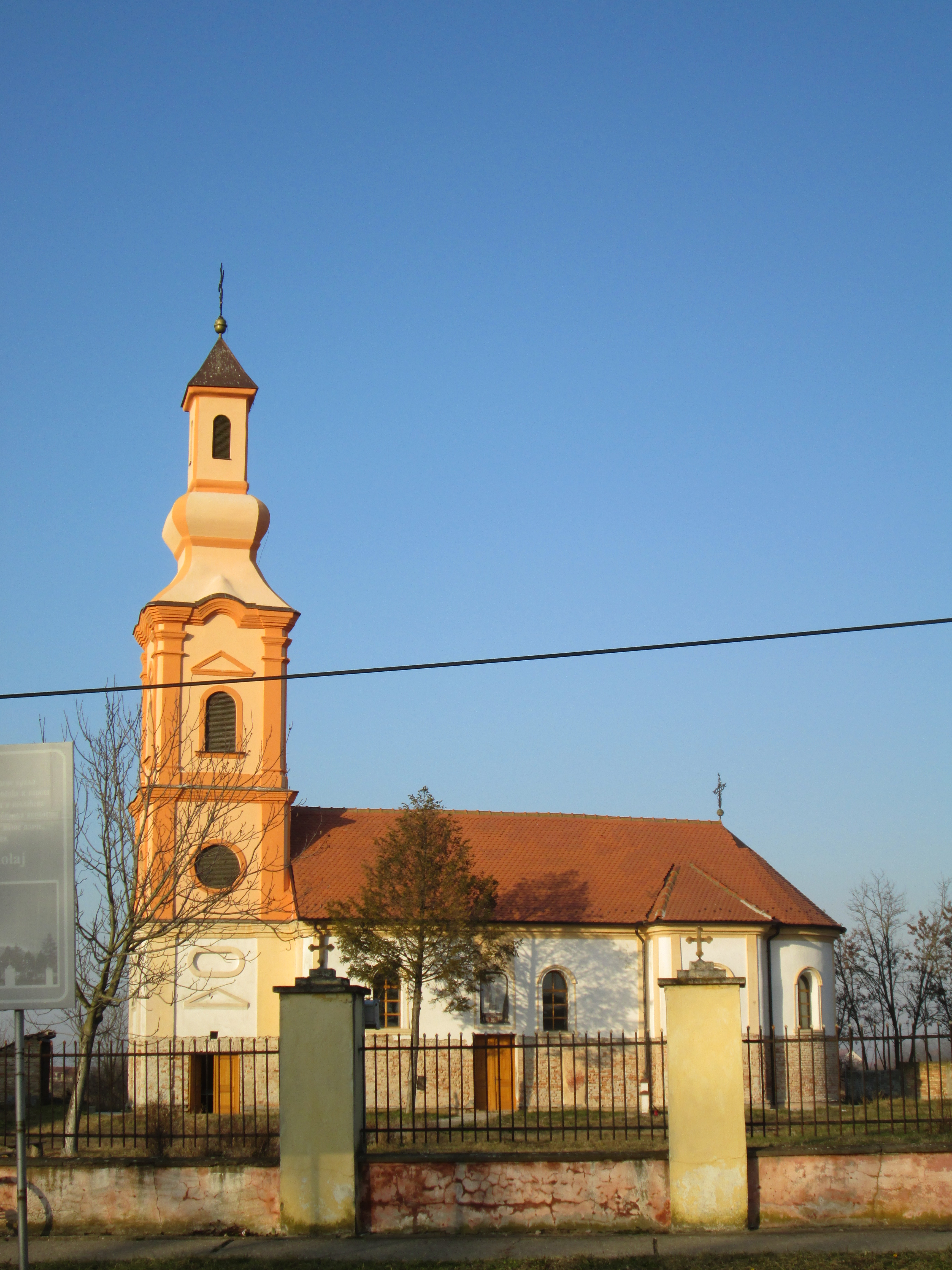 Church of Holy Father Nikolaj in Karlovčić Српски (ћирилица): Црква Св. Оца Николаја у Карловчићу